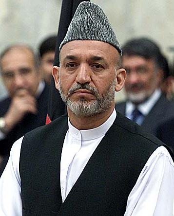 President of Afghanistan, Hamid Karzai, wearing his traditional Pashtun clothes.